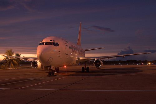 Conviasa Boeing 737-200 XA-TWR at Punta Cana airport